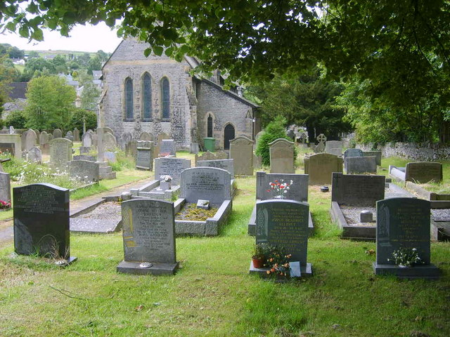 St Barnabas' parish churchyard, Bradwell, Derbyshire, seen from the east